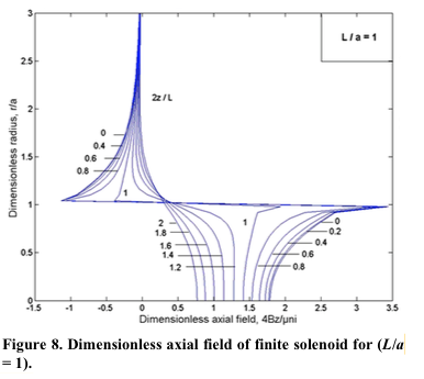 Dimensionless axial field of a finite solenoid. A description of this plot can be found in: E. E. Callaghan, S. H. Maslen (1960-10-01). "The Magnetic Field of a Finite Solenoid". NASA Technical Reports NASA-TN-D-465: p. 8.